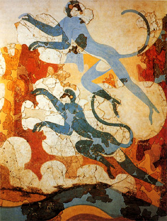 Fresco of blue monkeys from the bronze age excavations of Akrotiri on the Greek island of Santorini